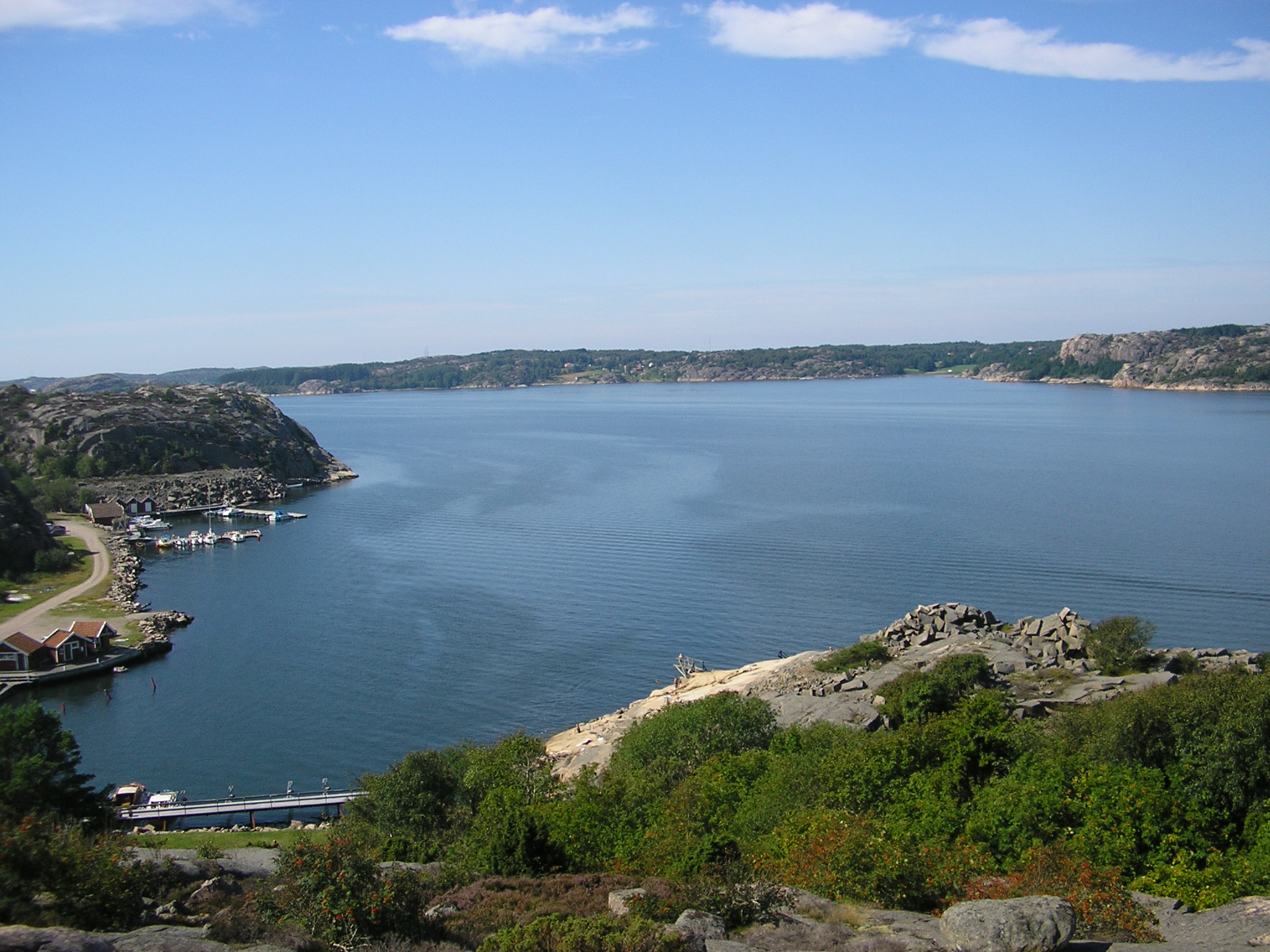 Åbyfjorden in Bohuslän, Sweden, seen from Fågelviken.